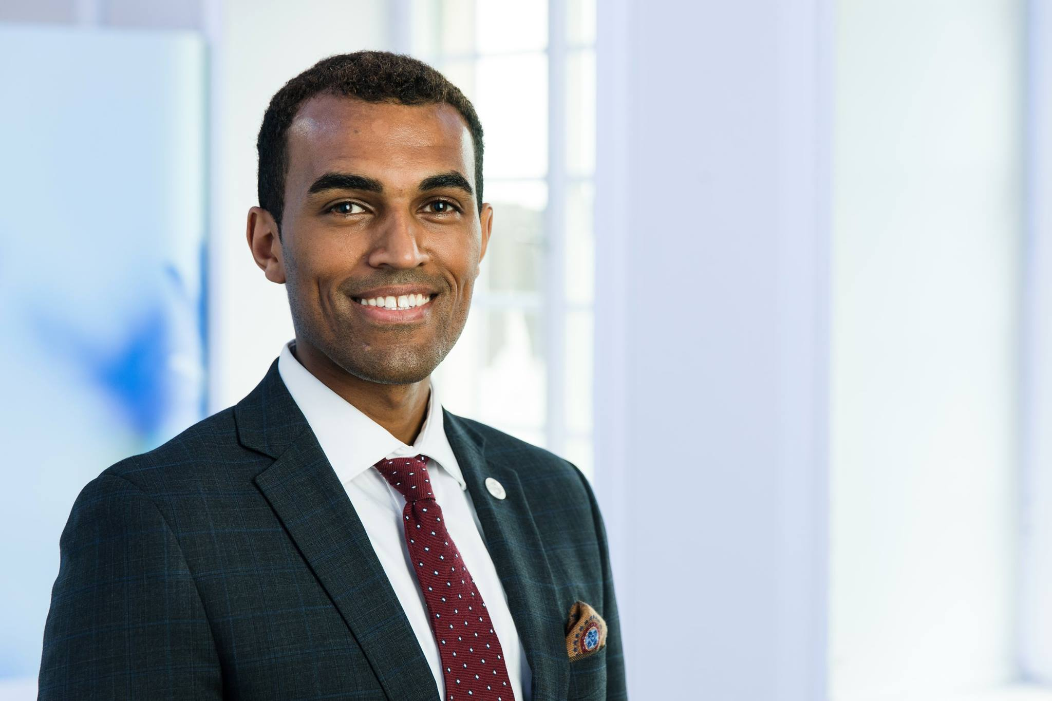 Said Abdu, Member of Parliament (Sweden)